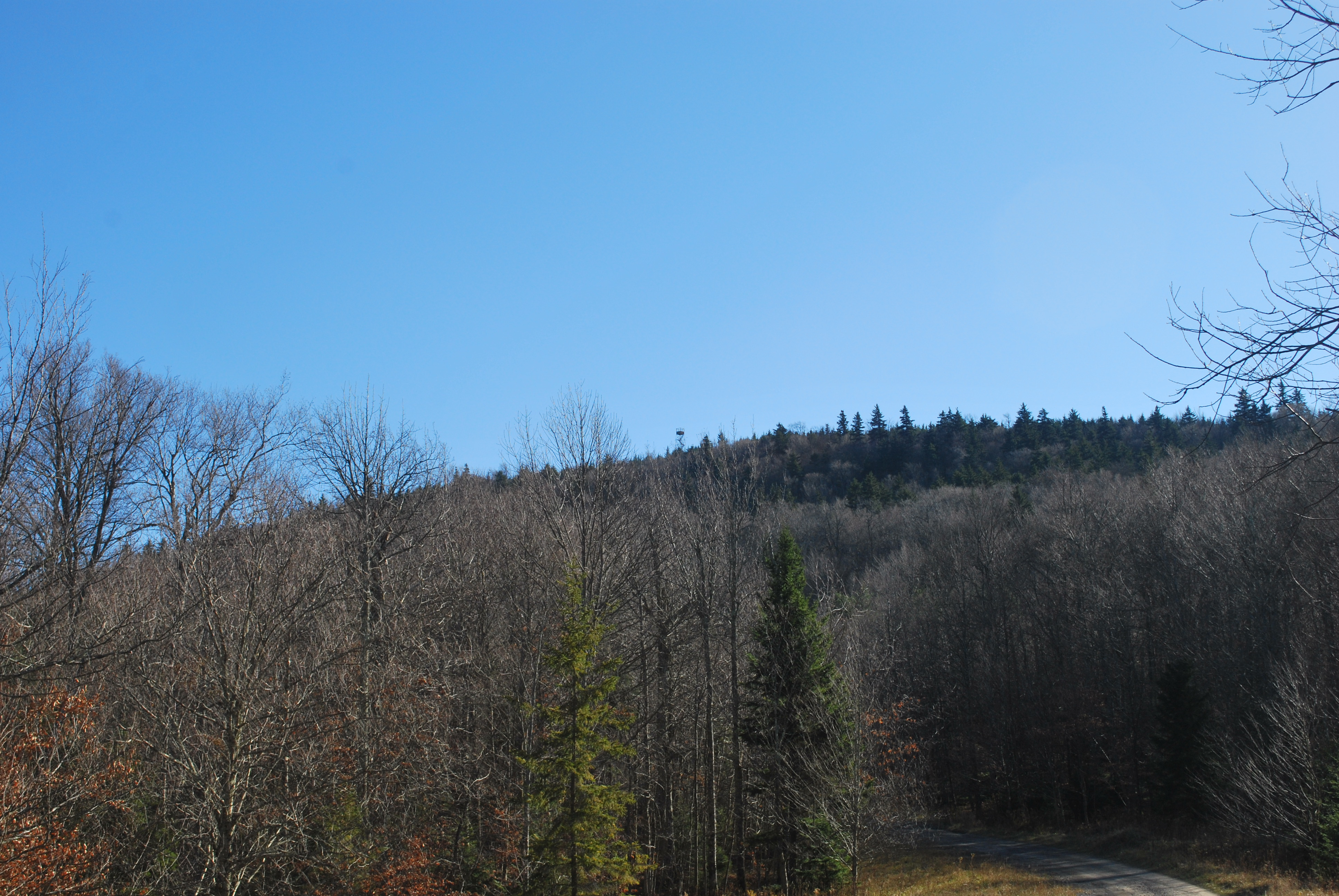 View of Barton Knob from the north. Fire tower is visible on top of summit.